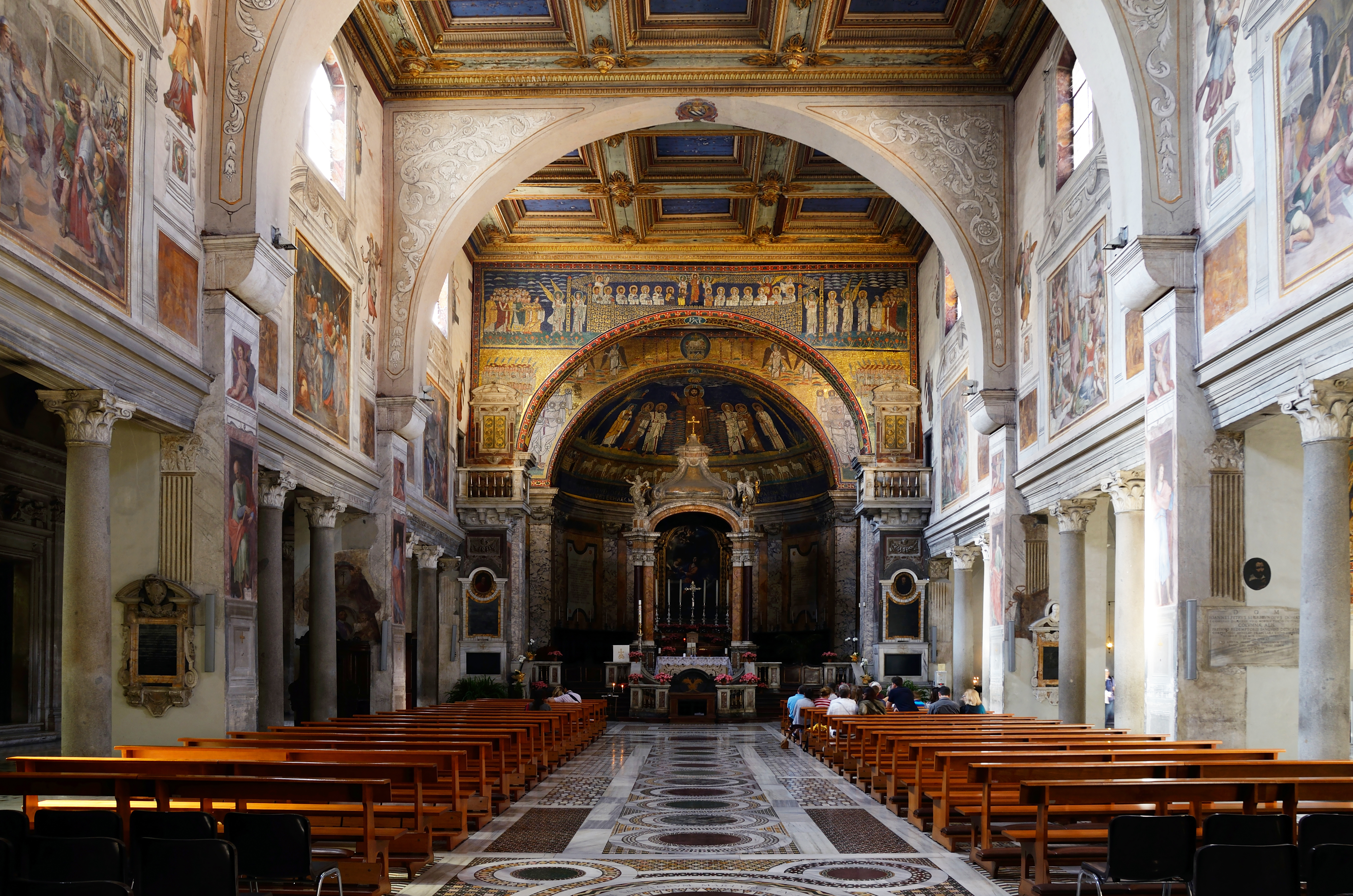 Santa Prassede (Rome) - Interior